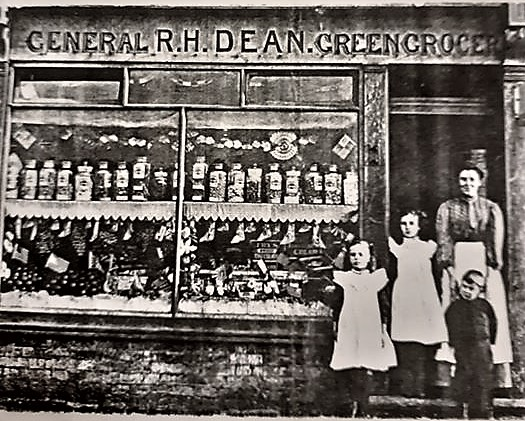 Greengrocery & General Store Wainscott circa 1900